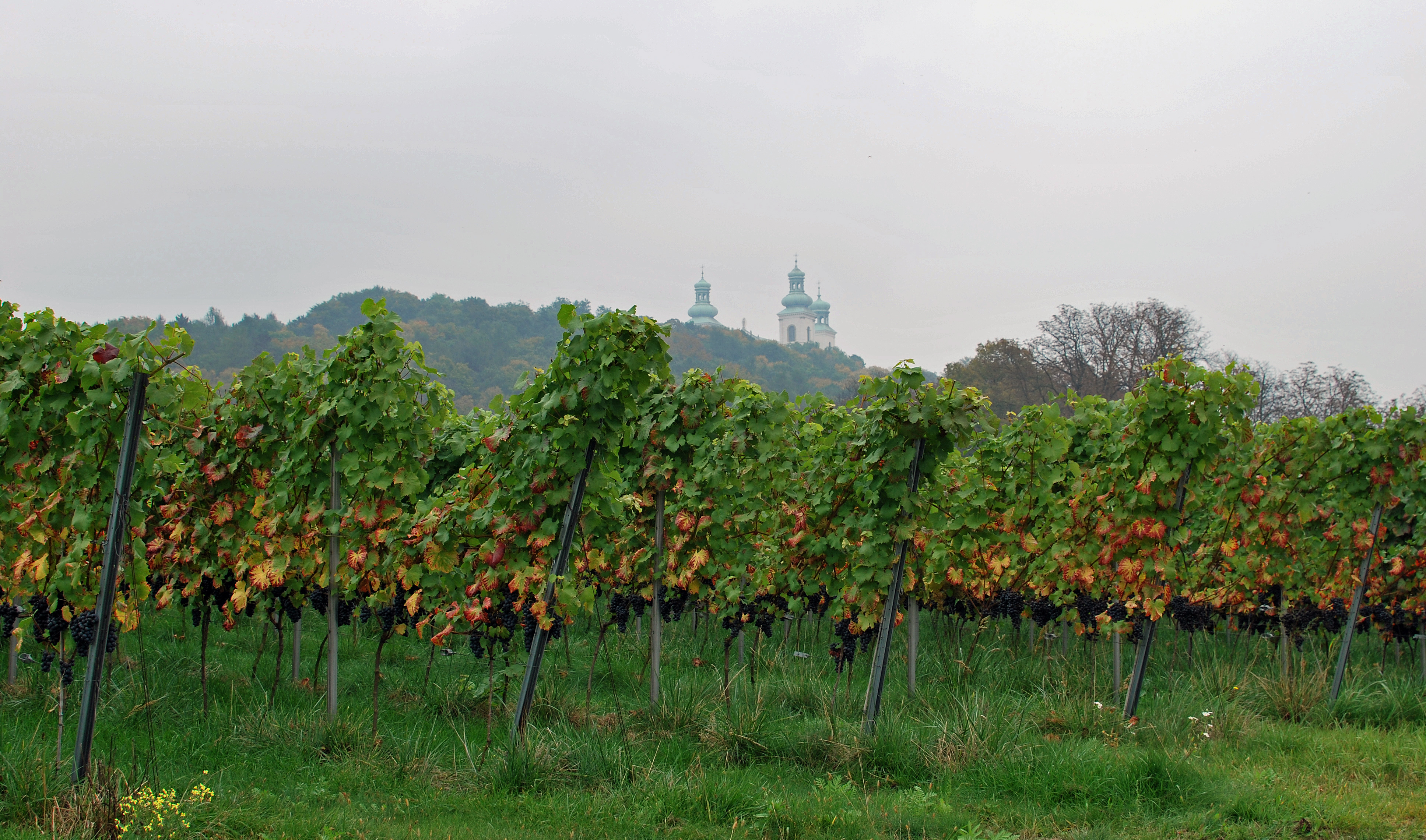 Vineyard, Wędrowników Av, Bielany, Kraków, Poland